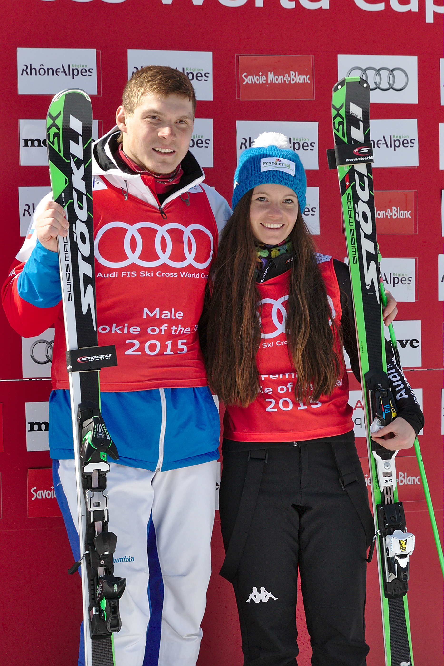 FIS Ski Cross World Cup 2015 Finals - Megève - 20150314 - Sergei Ridzik et Deborah Pixner Rookies of the year